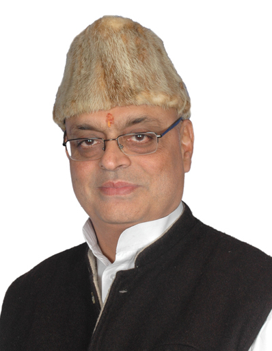 Ajeya Pratap Singh (Raja Ajay Singh) is a politician belonging to Indian National Congress party and also son of formr Prime Minister of India shri V.P. Singh